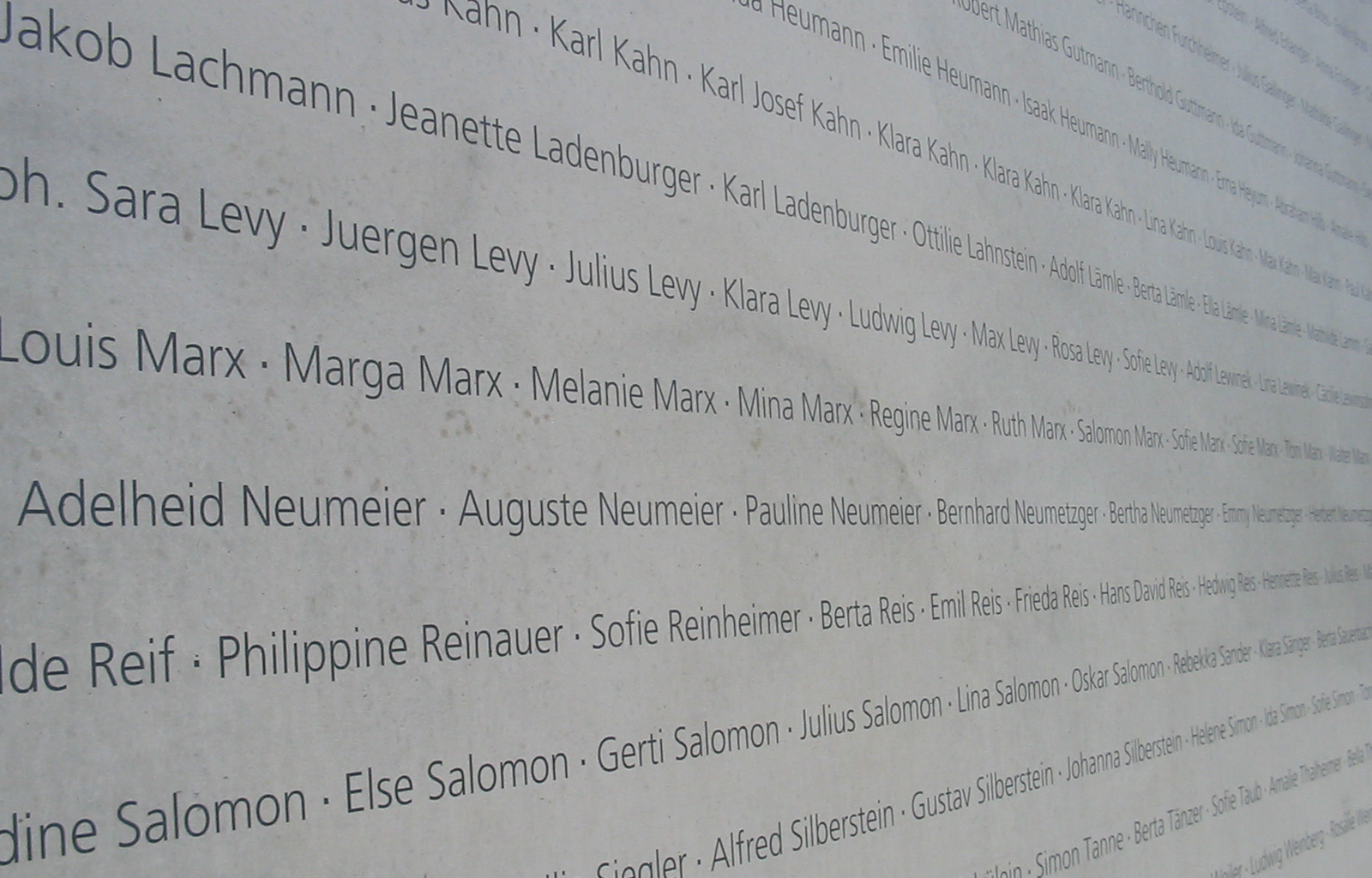 Memorial "Mark of Remembrance" in Stuttgart